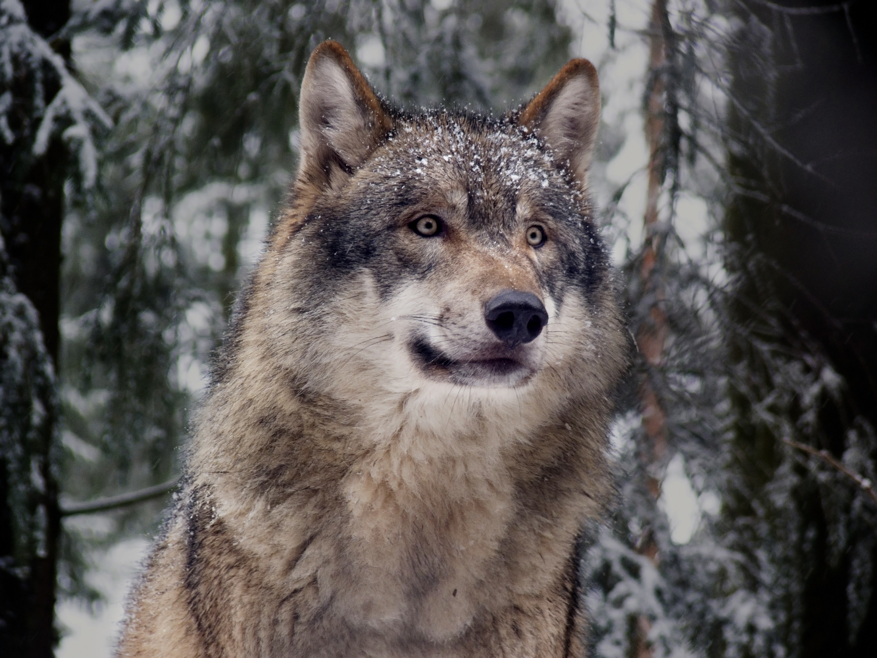 grey wolf